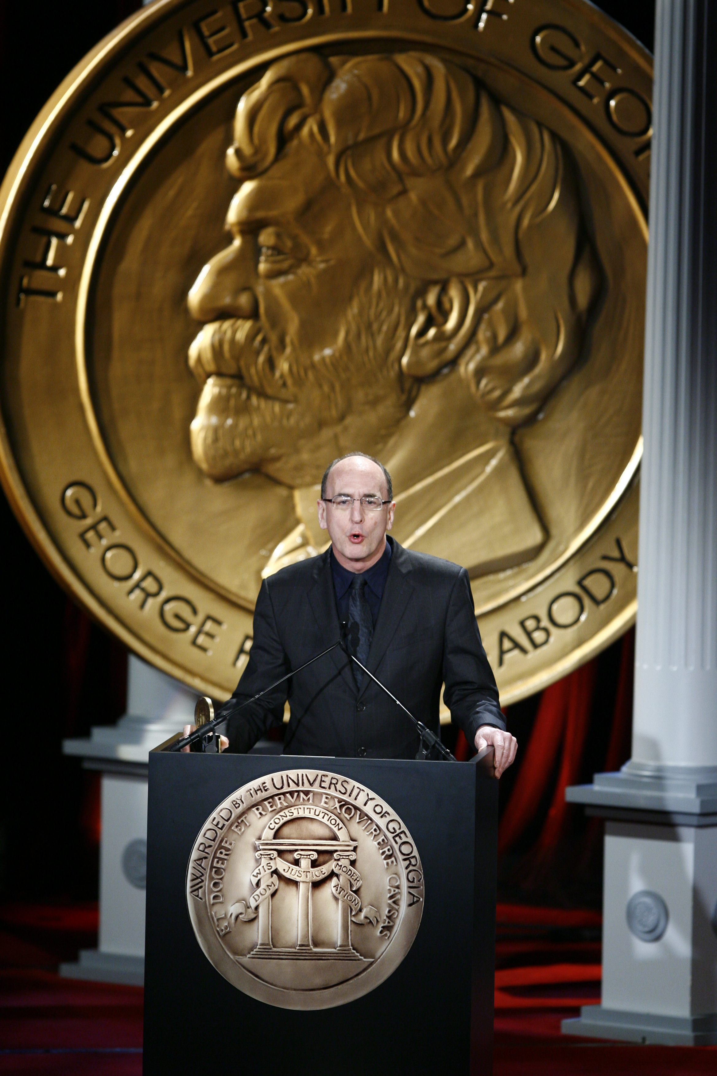 PHOTO CREDIT: ANDERS KRUSBERG / PEABODY AWARDS Peter Gelb 69th Annual Peabody Awards Luncheon Waldorf=Astoria Hotel New York, NY USA May 17, 2010